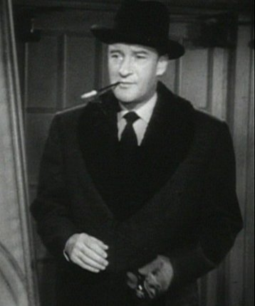 Cropped screenshot of George Sanders from All About Eve.